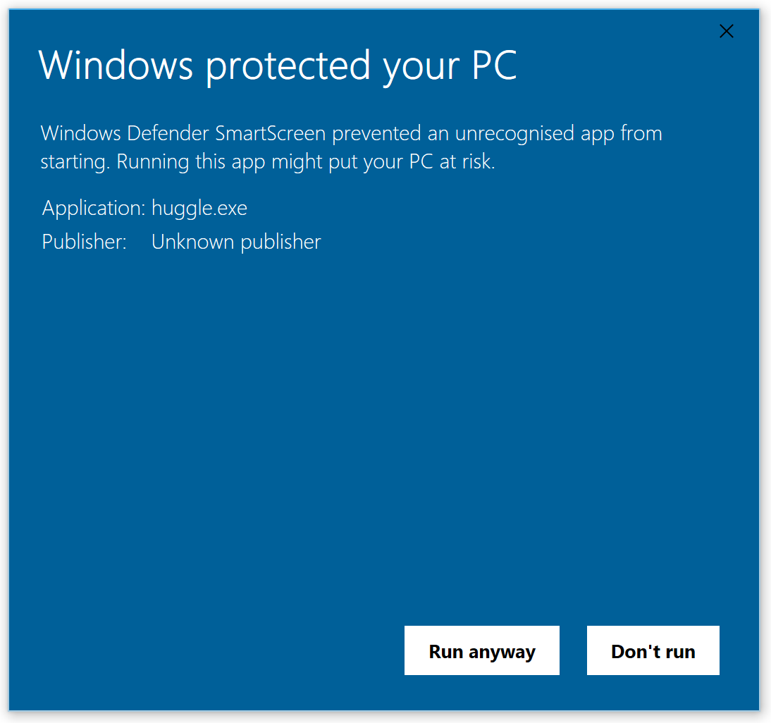 Windows smart screen blocking Huggle